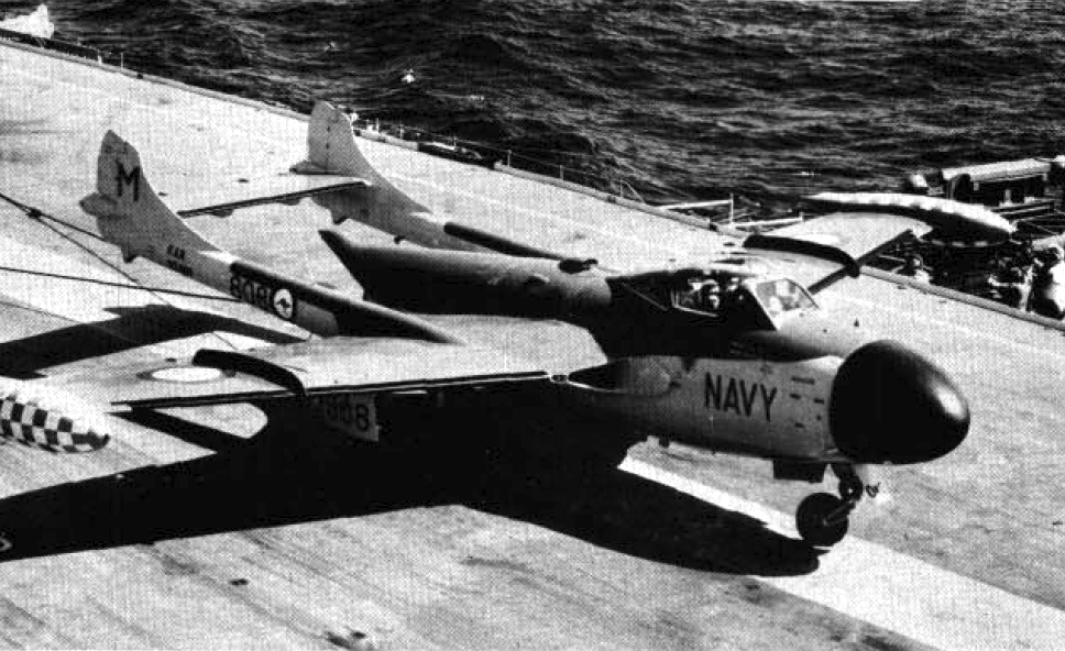 A Royal Australian Navy de Havilland Sea Venom FAW.53 (serial WZ907) of 805 Naval Air Squadron after landing aboard the aircraft carrier HMAS Melbourne (R21), circa 1962. WZ907 is preserved at the Camden Museum of Aviation, Camden, New South Wales, Australia.